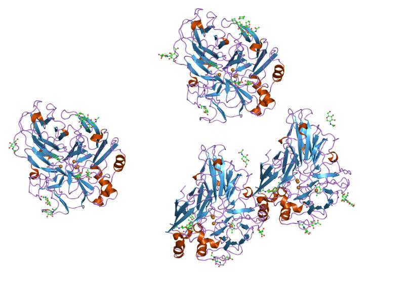 Cartoon representation of the molecular structure of protein registered with 1kya code.